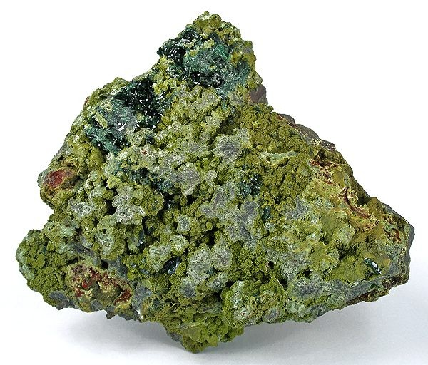 Olivenite, Gartrellite Locality: Tsumeb Mine (Tsumcorp Mine), Tsumeb, Otjikoto (Oshikoto) Region, Namibia (Locality at ) Size: 11.3 x 9.5 x 8.5 cm. This is an exceptionally rich specimen of the very rare mineral species gartrellite, from Tsumeb. This rare arsenate was only found sparsely at Tsumeb. This is a cabinet piece loaded with the stuff in rich pistachio green microcrystals running on and through the matrix. Brilliantly lustrous, deep green, sharp olivenite crystals provide contrast. Ex. Willy Israel and John Innes Collections.